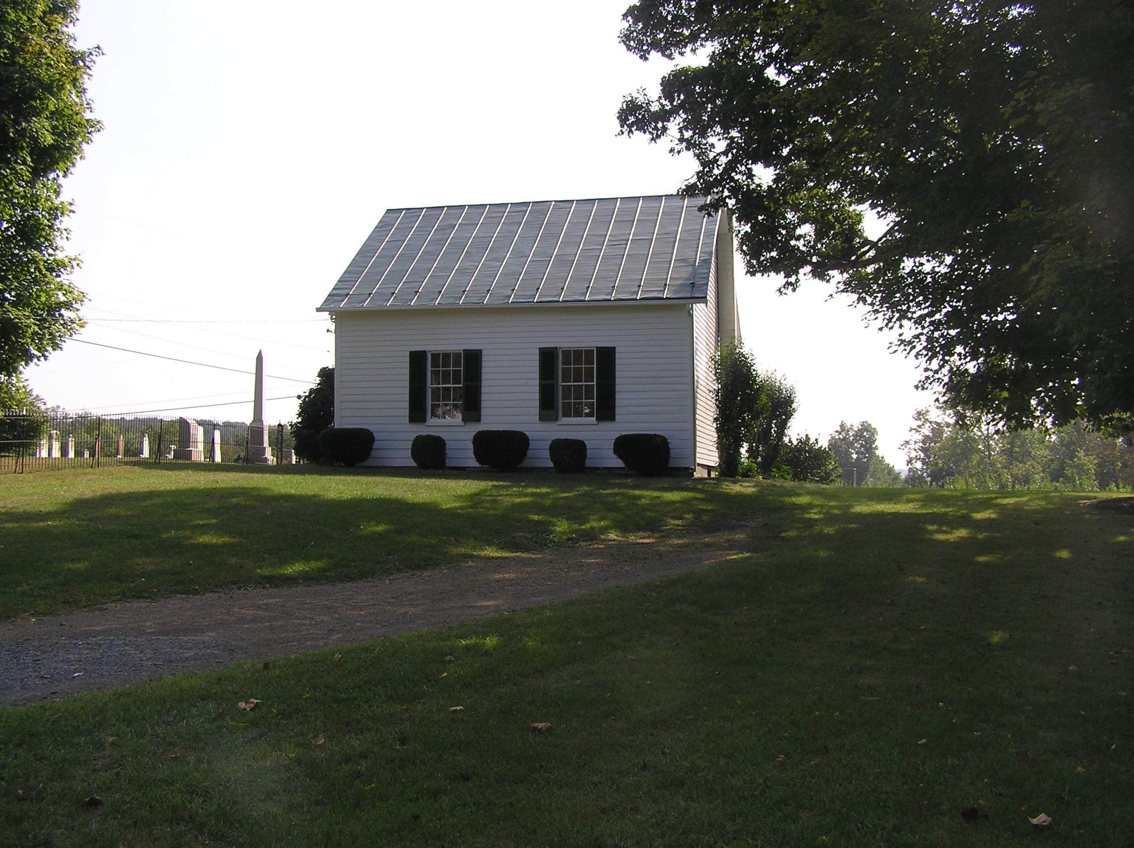 Capon Chapel (c. 1756) and Cemetery on Christian Church Road (County Route 13) near Capon Bridge, West Virginia, United States.